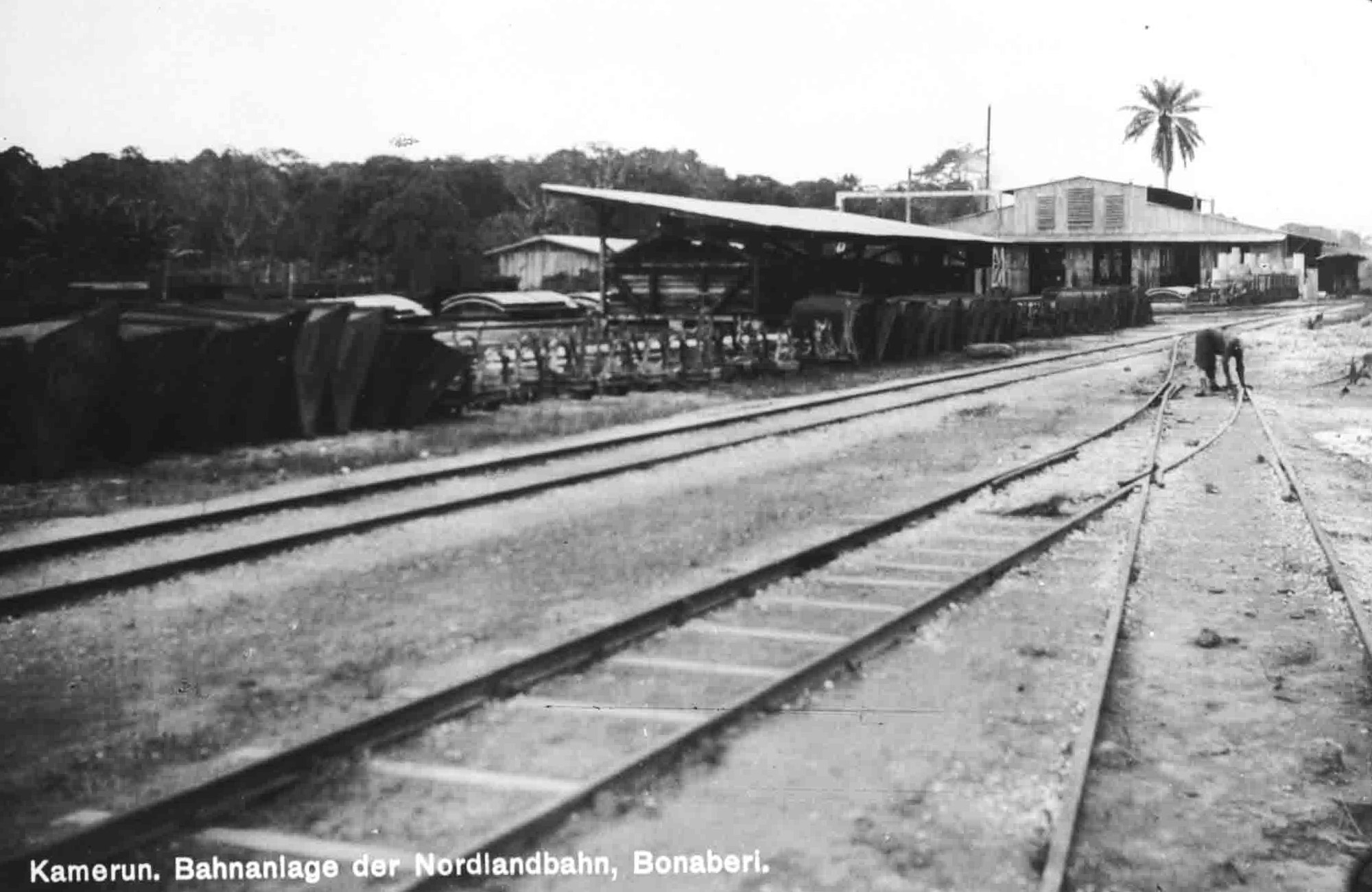 Cameroon, North Railroad at Bonaberi.